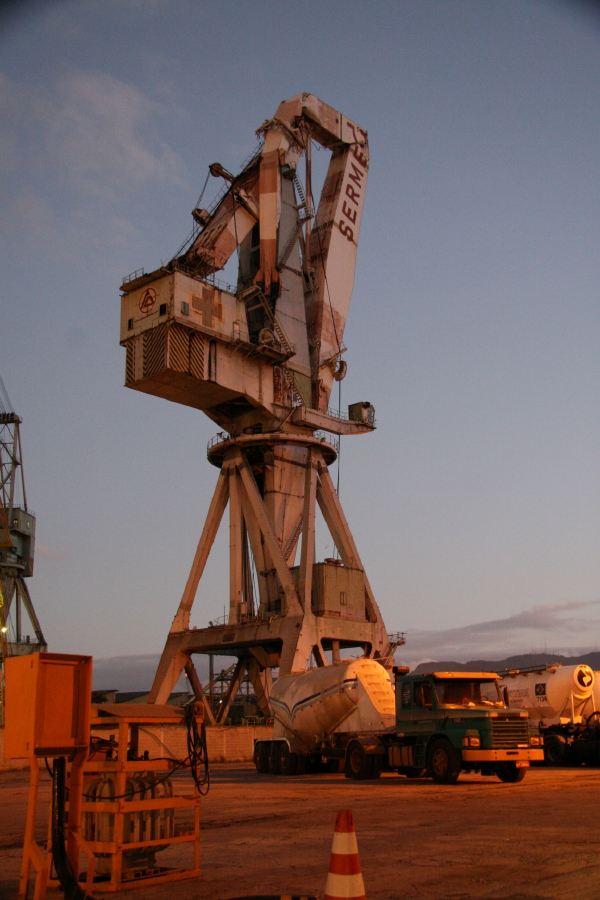 broken crane in former ishibras - ishikawajima actual sermetal shipyard. Rio de Janeiro - Brasil.